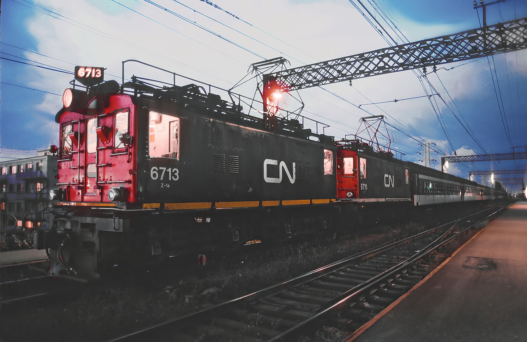 A Roger Puta photograph